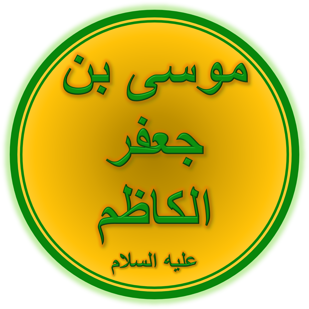 Arabic text with the name and a title of Musa ibn Jafar al-Kadhim